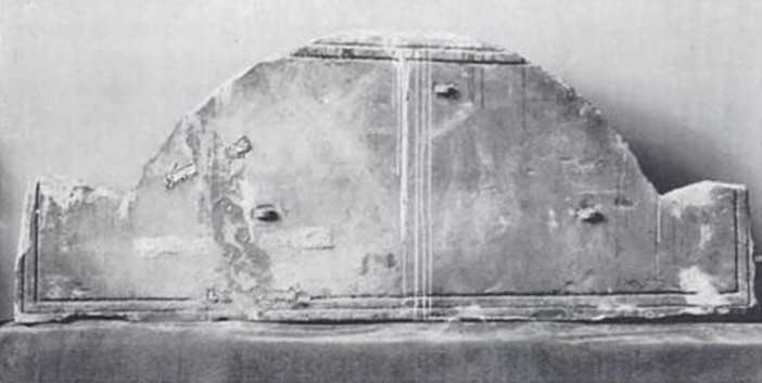 The back of the Egmond tympanum